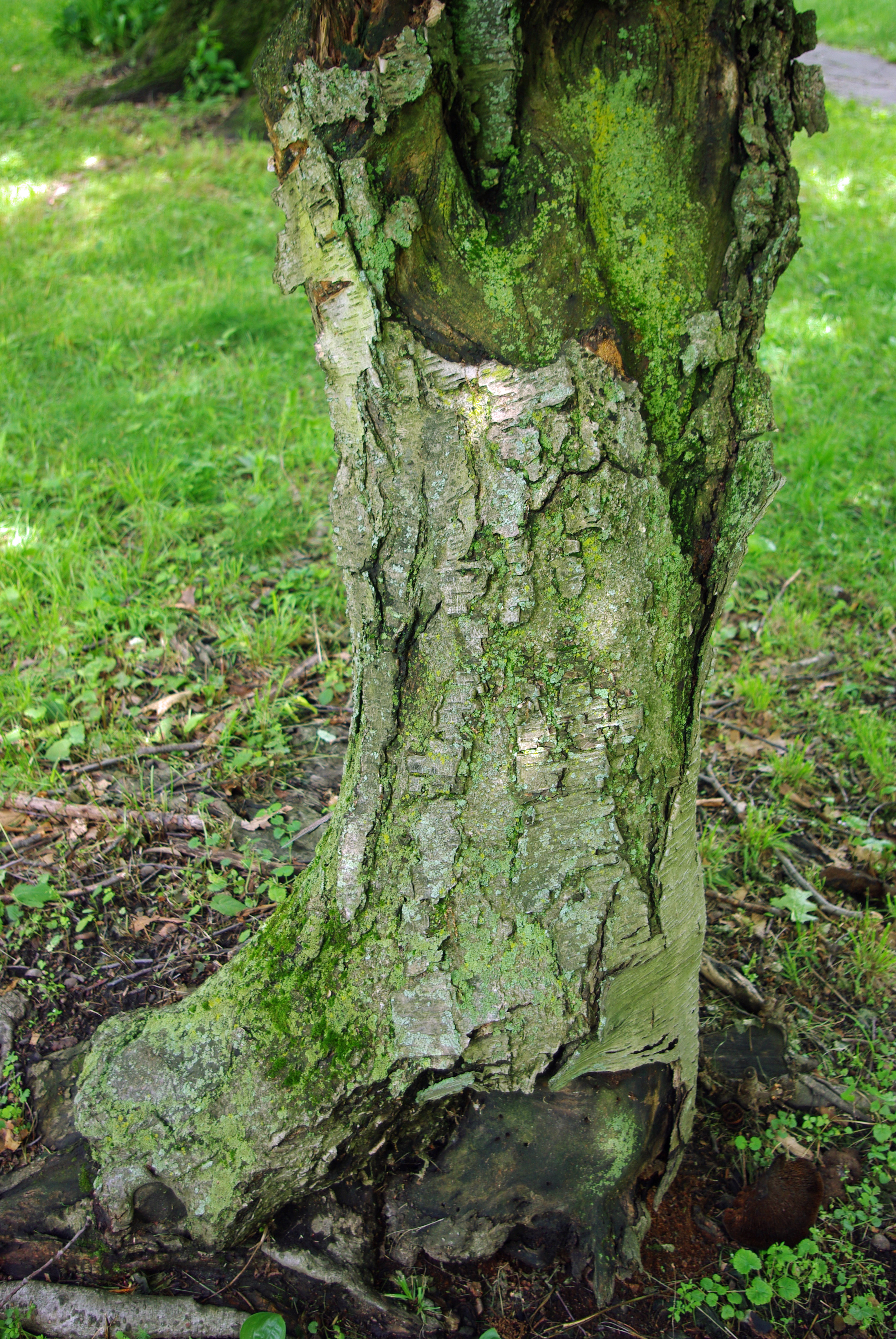 Trunk of Betula grossa, Arnold Arboretum, Boston, Massachusetts